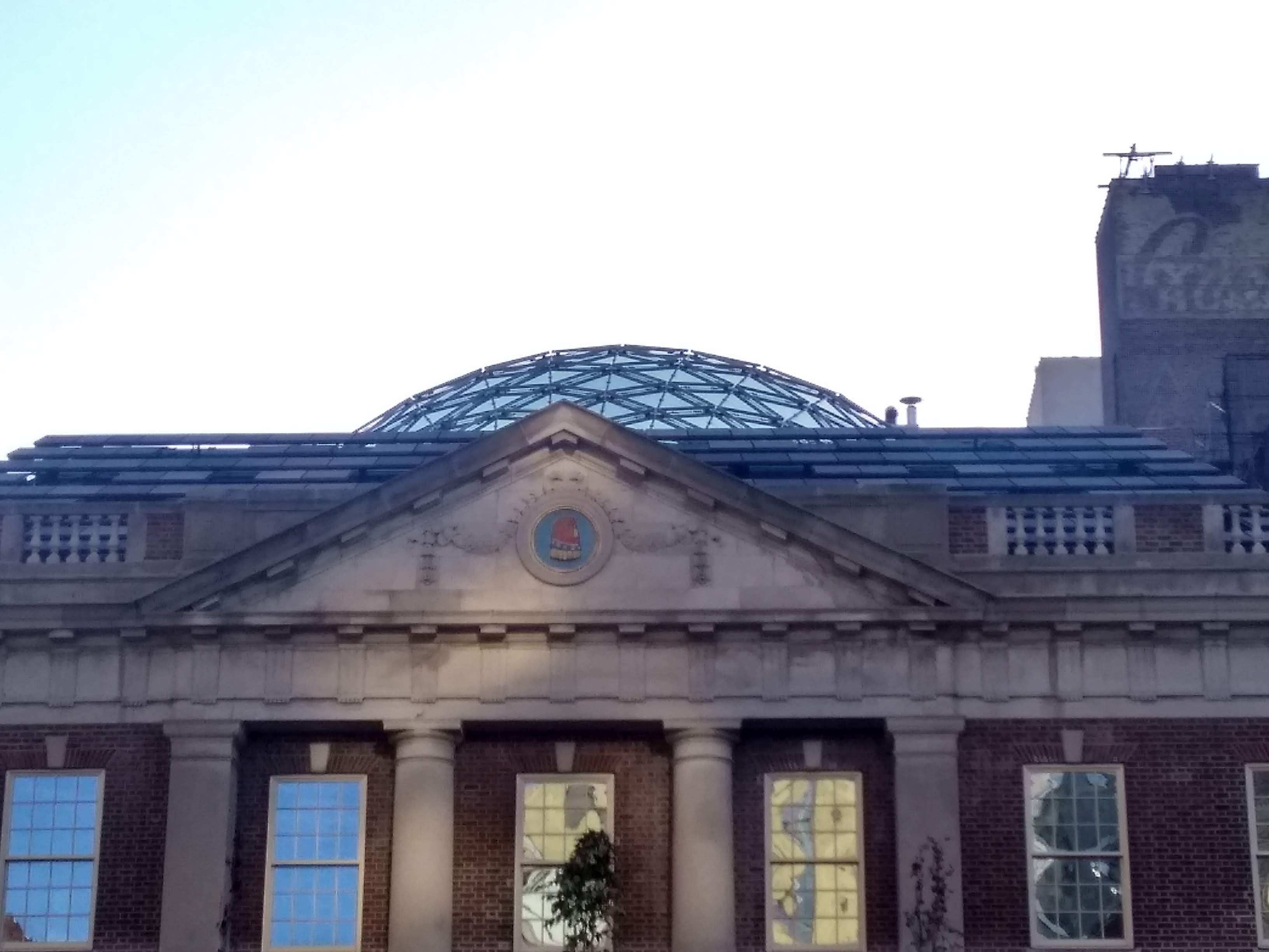 Union Square in Manhattan, New York